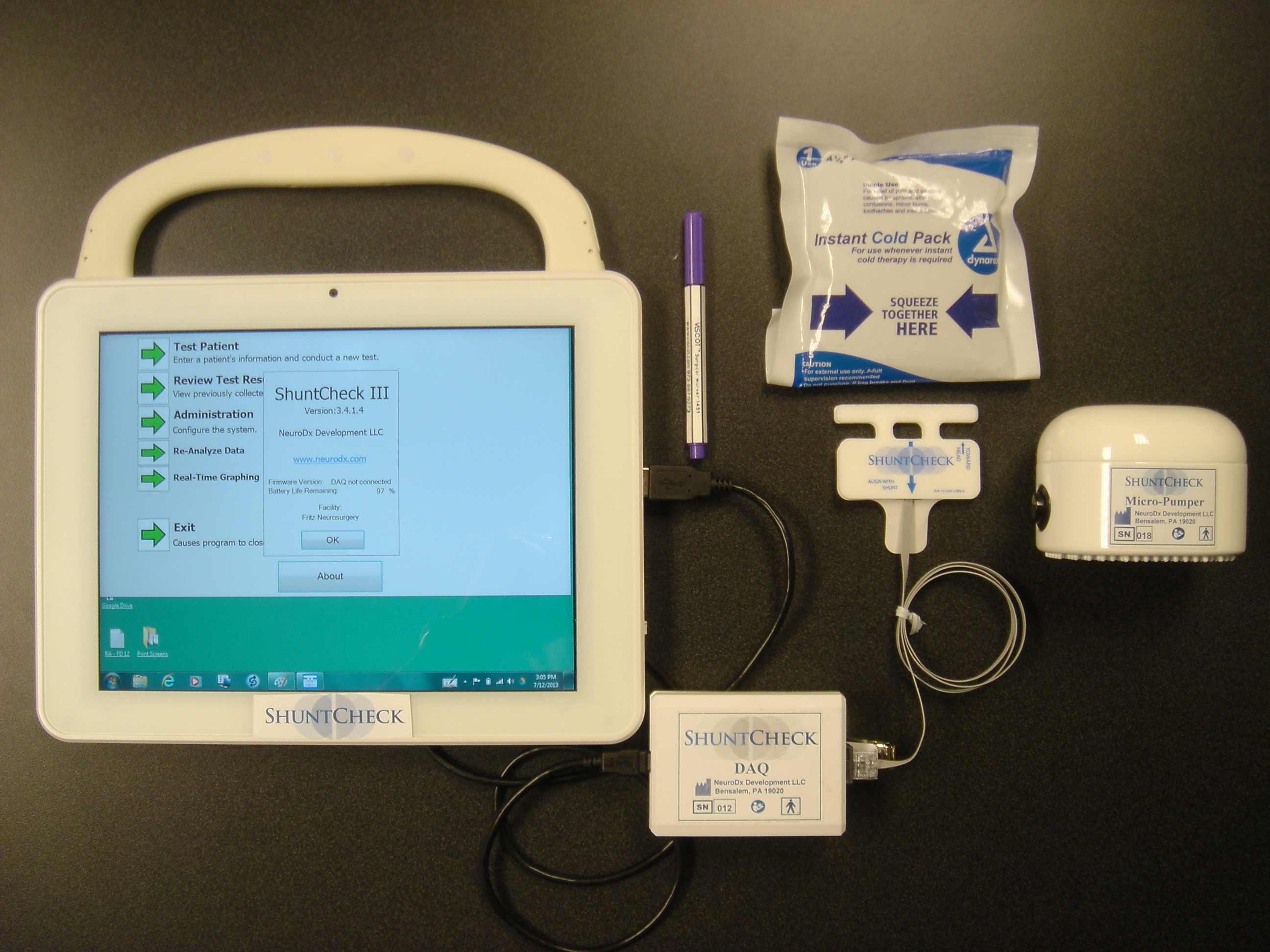 SCIII System